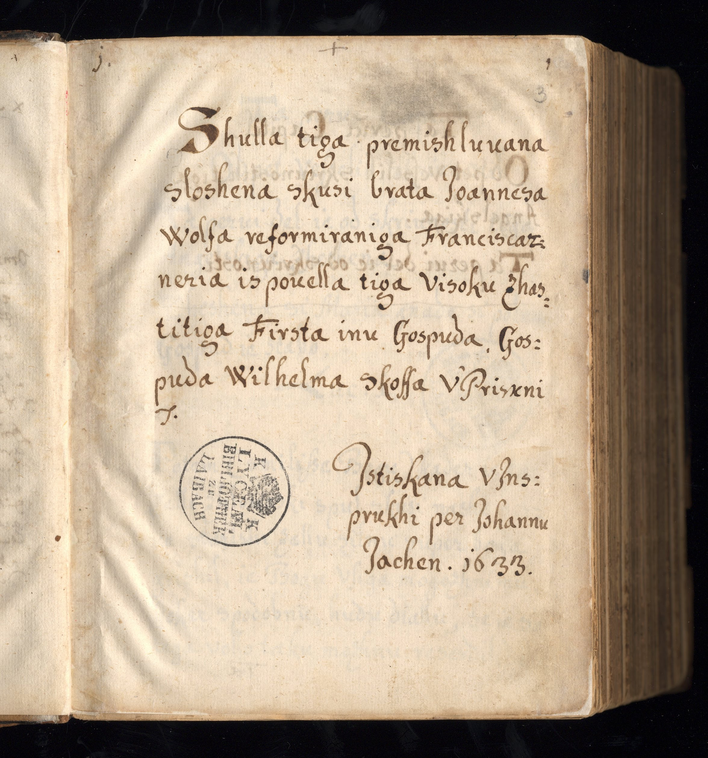 The School of Thinking (Shulla tiga premishluvana).